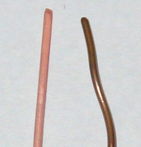 Copper wire comparison